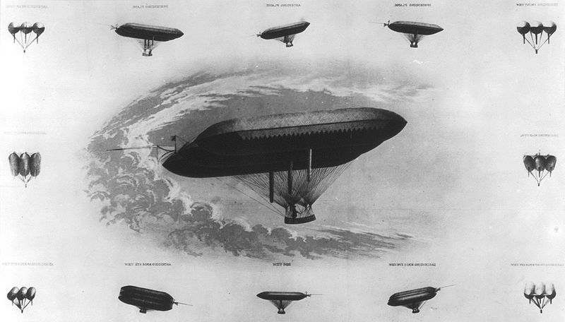 "Solomon Andrew's airship 'Aereon', in which he proposes to cross ocean during Civil War, 1863." Photograph of a lithograph.